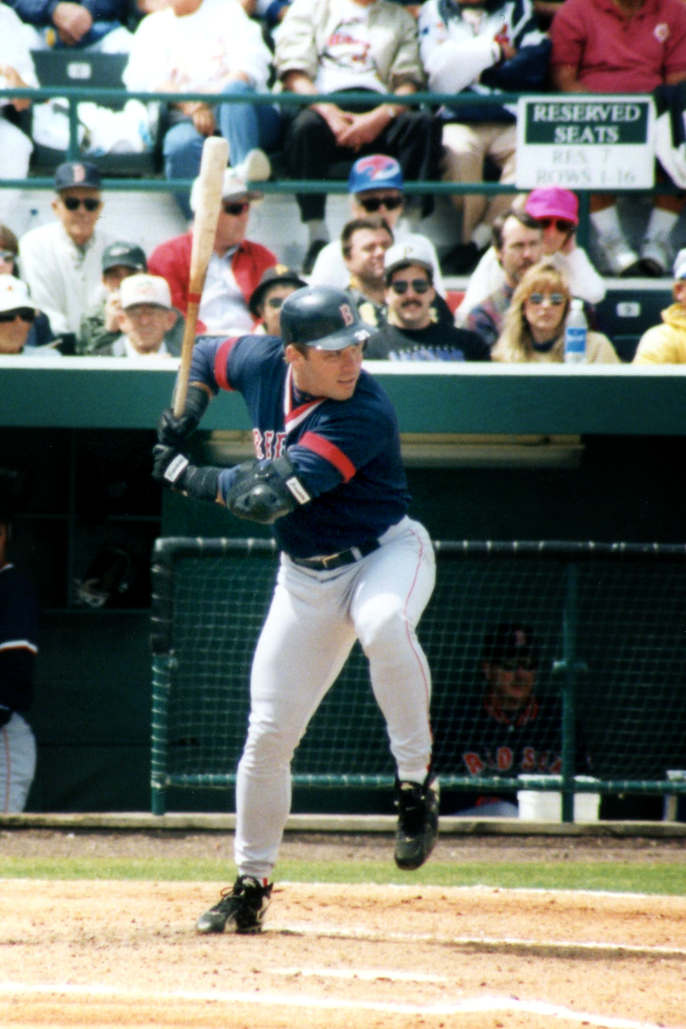 Jim Leyritz playing for the Boston Red Sox in Spring Training in March, 1998 in Bradenton, Florida